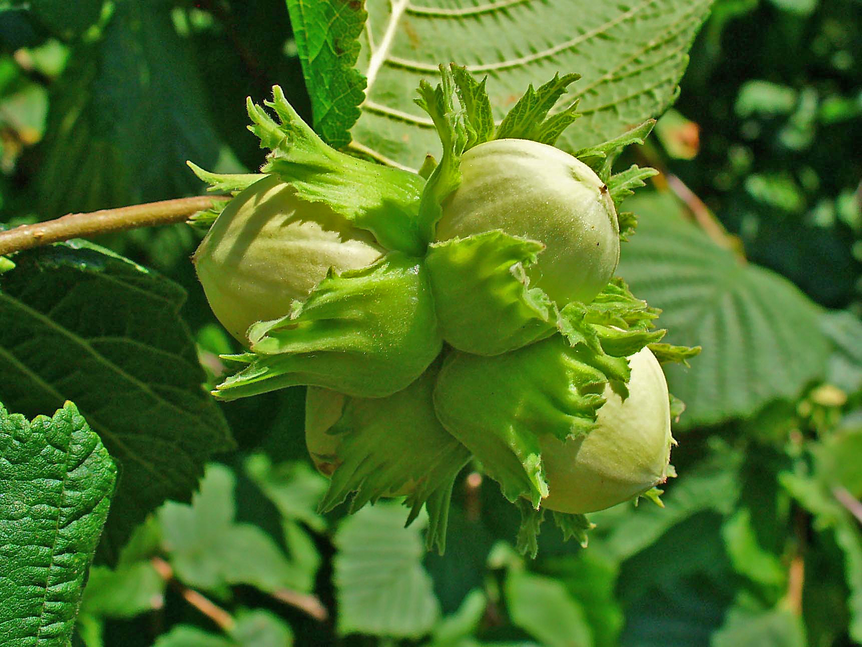 Corylus avellana, Betulaceae, Common Hazel, fruits; Karlsruhe, Germany.